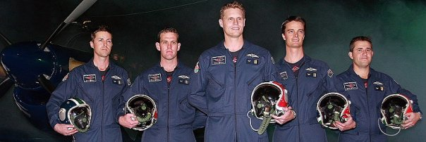 South Africa